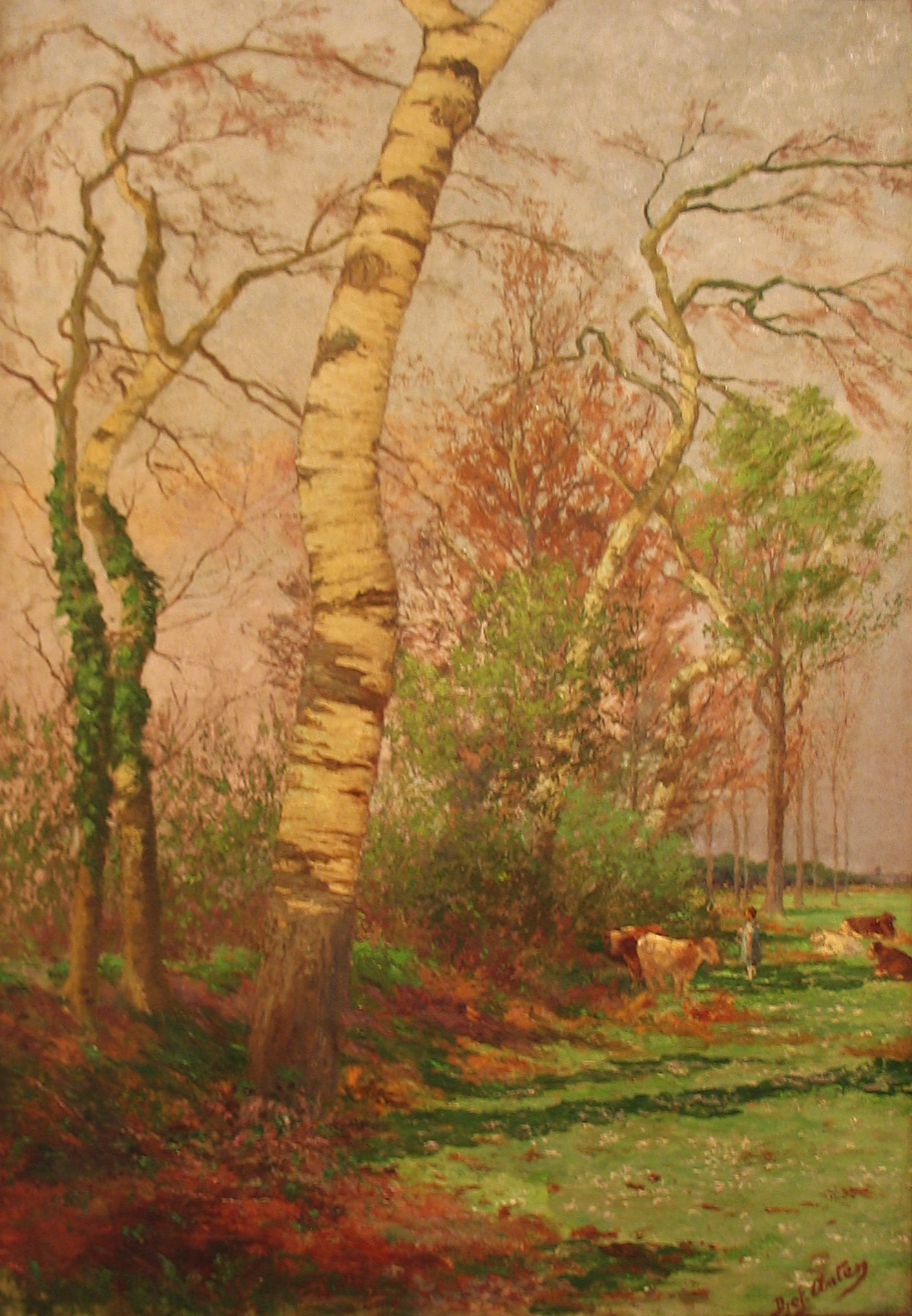 Djef Anten (1851-1913) - Langs de Demer (Along the river Demer) - at the Stadsmus, Hasselt, Belgium